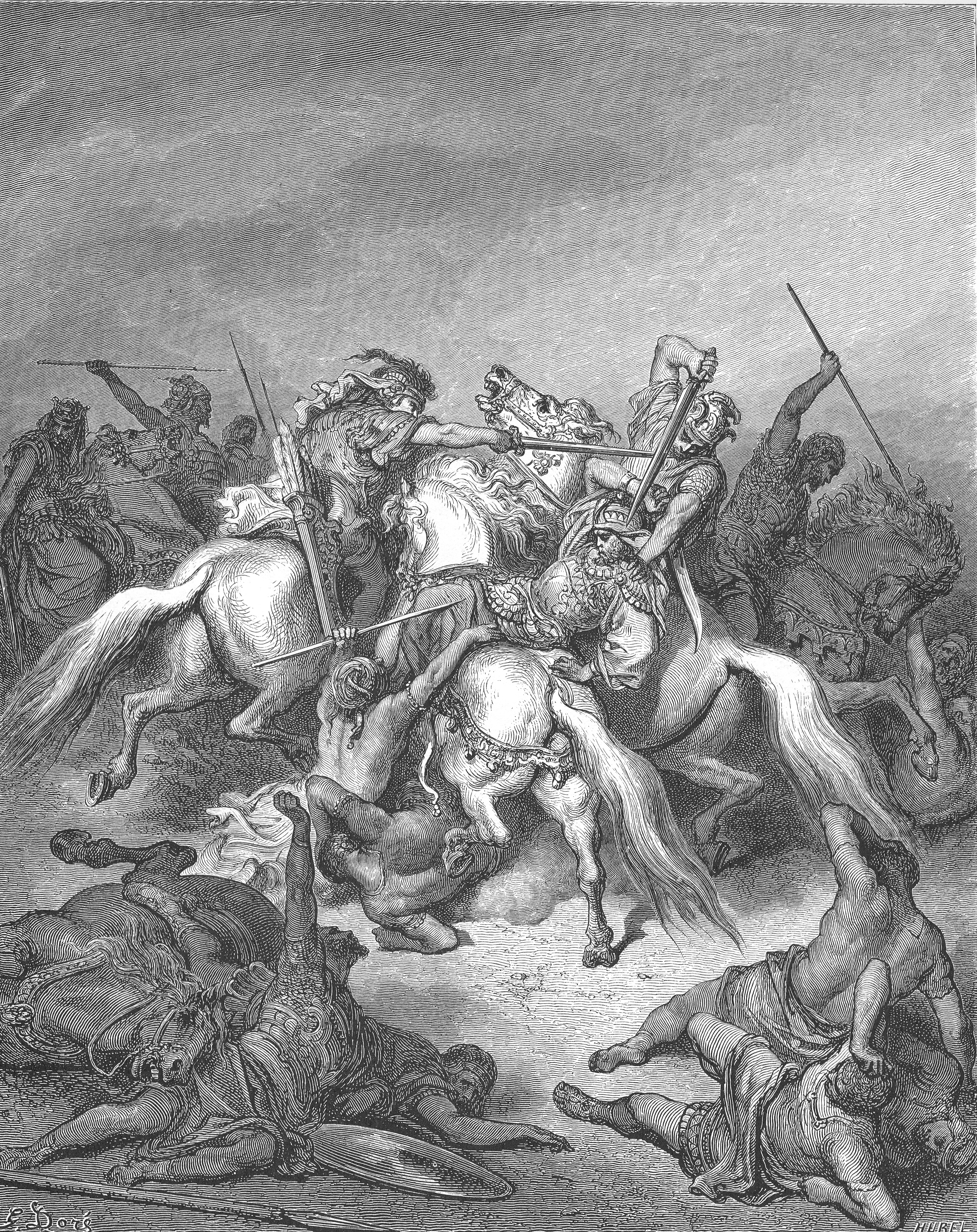 Abishai Saves David's Life (2Sam. 21:15-17)